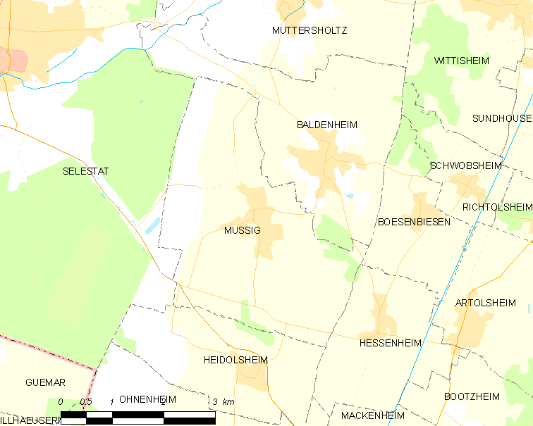 Map of French municipality